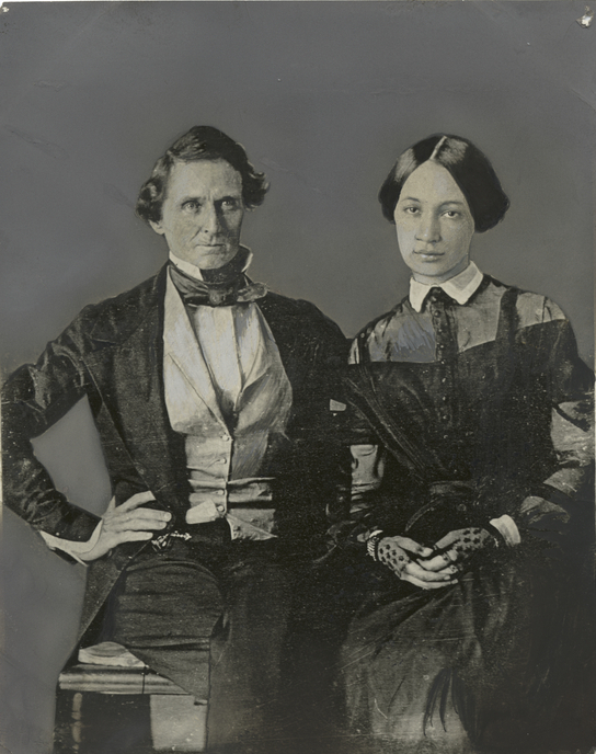 Wedding picture, Jefferson Davis and Varina Howell Davis, 1845, from a daguerreotype in the possession of their granddaughter, Mrs. George B. Webb, Colorado Springs, Colorado.